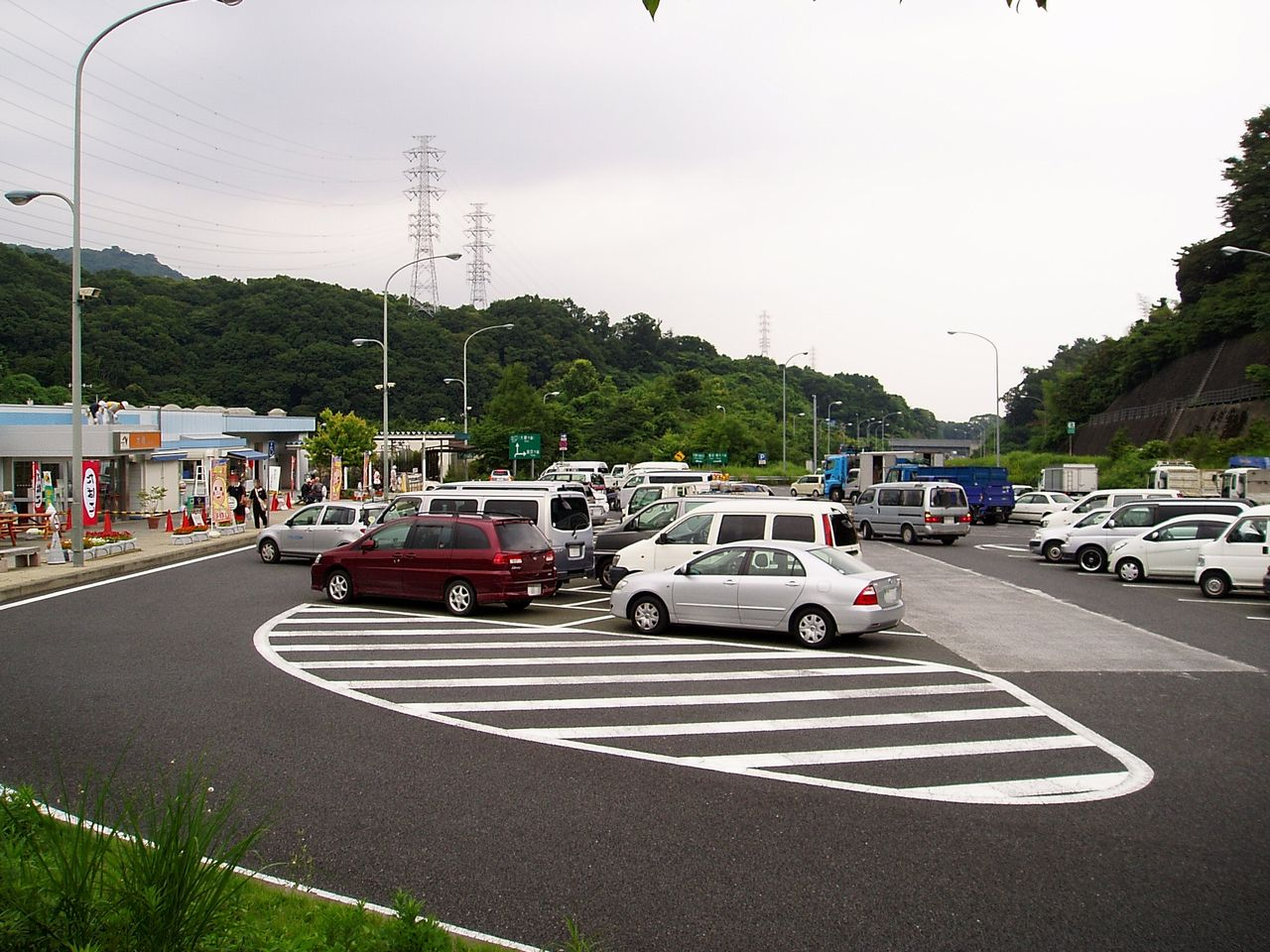 Oiso Perking Area